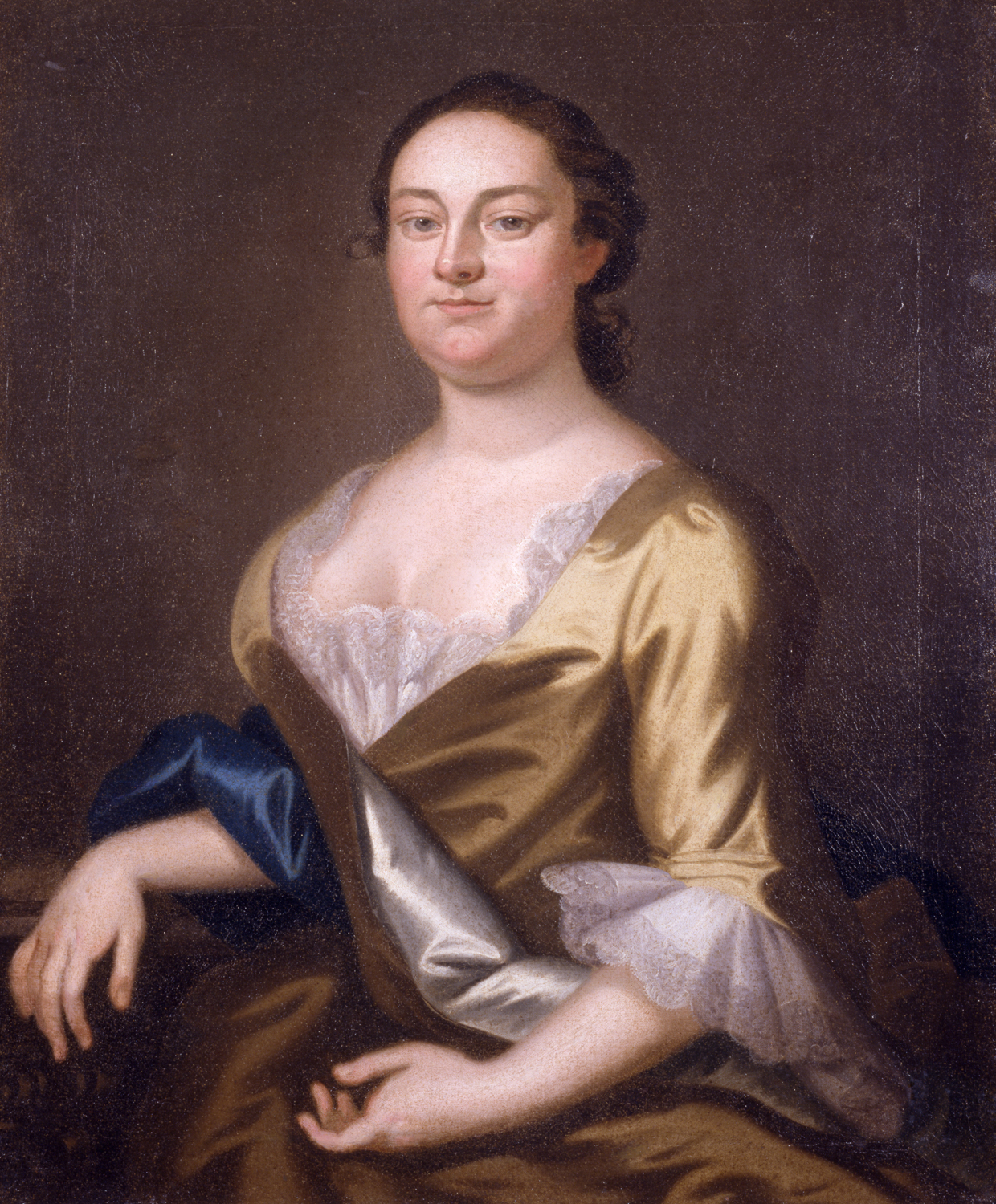 Dimensions: 36 x 30 in. (91.44 x 76.2 cm.)